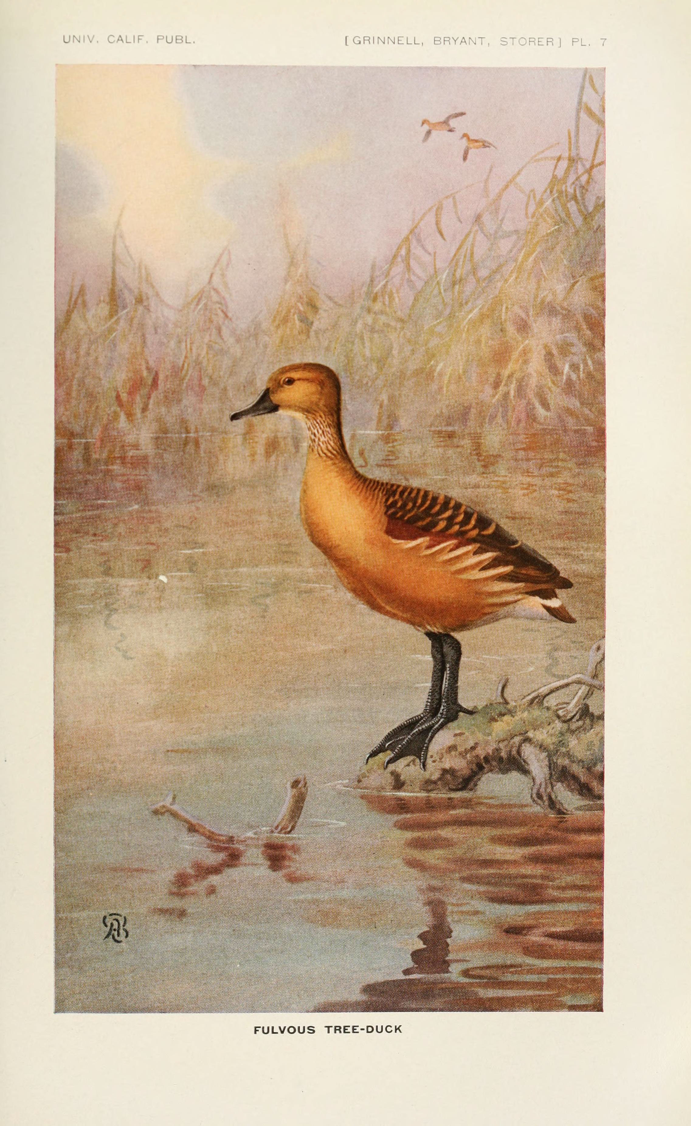 UNIV. CALIF. PUBL. .GRINNELL, BRYANT, STORER. PL. 7 y^'^ '"^^ FULVOUS TREE-DUCK